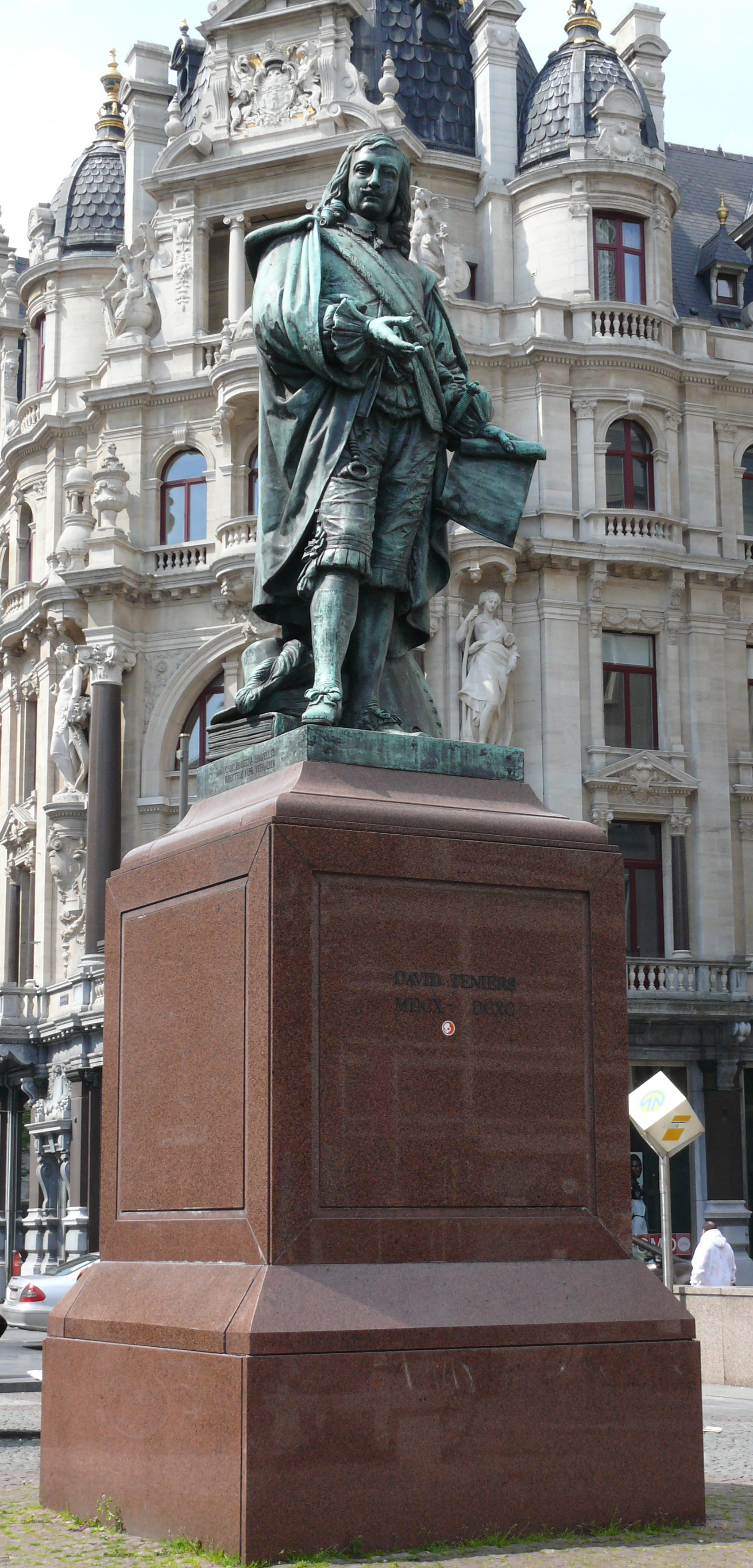 Statue of David Teniers (II) at the Teniersplaats in Antwerp, by F. Ducaju (ca. 1865). The statue was cast at the Cie des bronzes in Brussels.